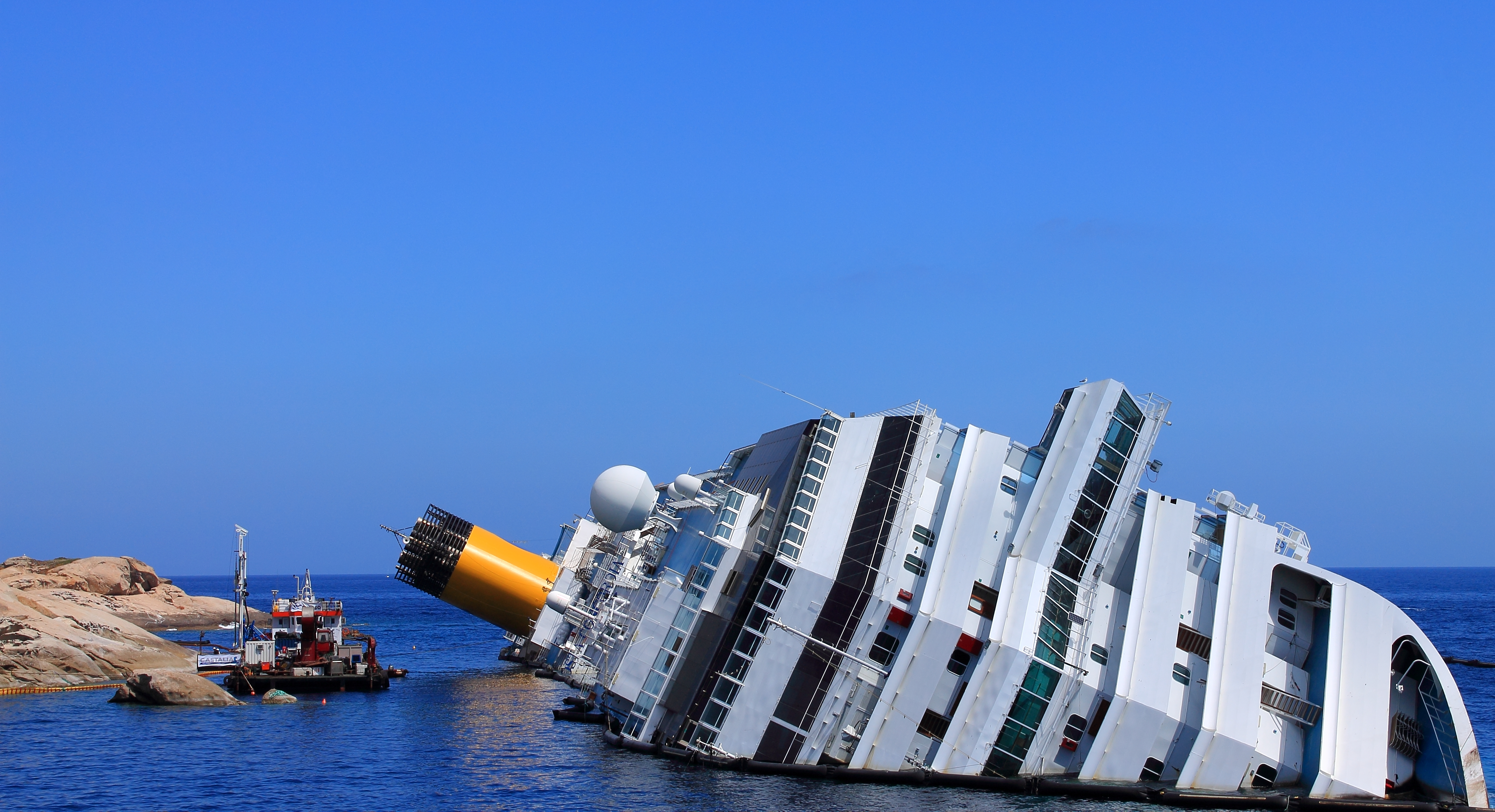 Sunken cruise ship "Costa Concordia" off the coast of the island of Giglio, Italy